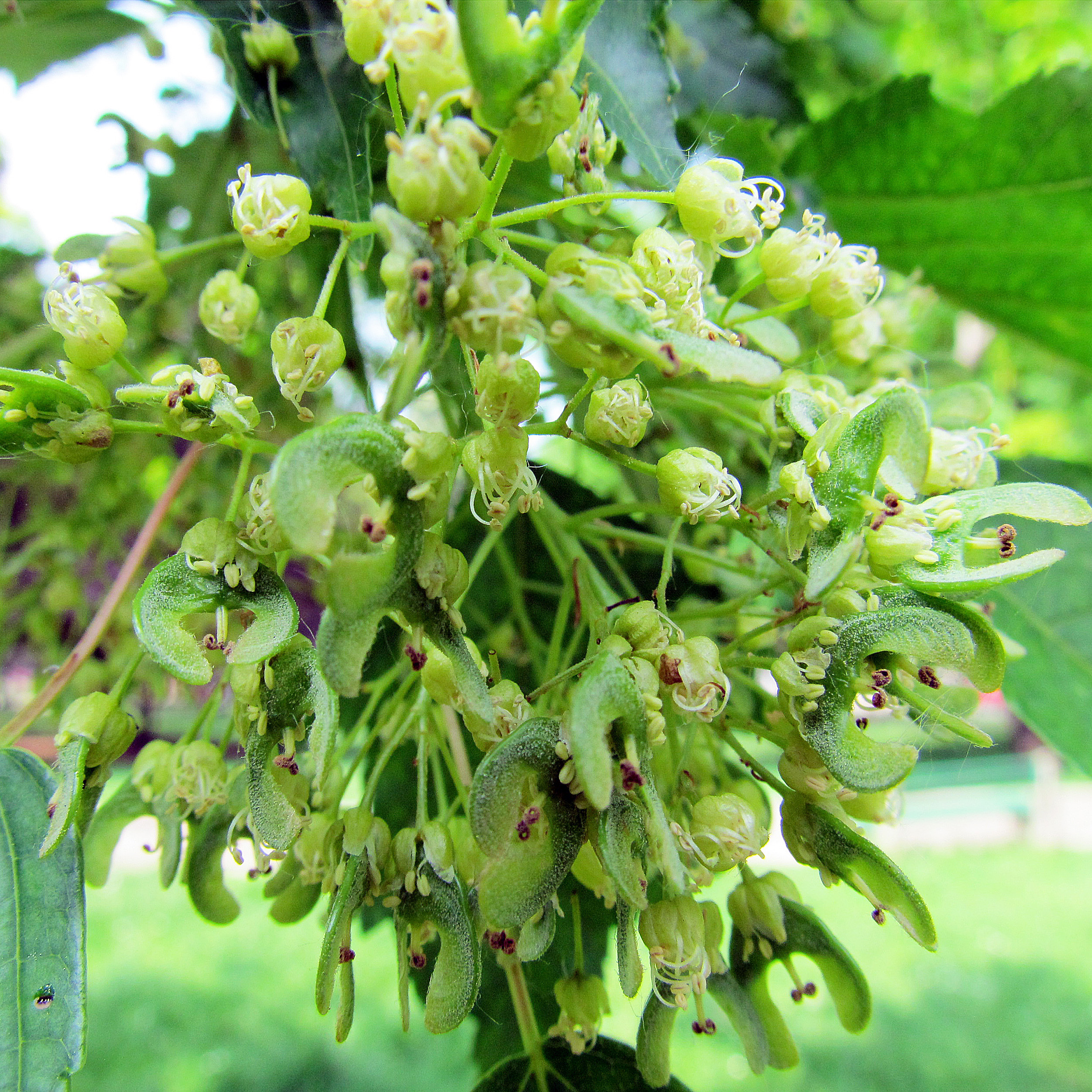 Acer ginnala flowers